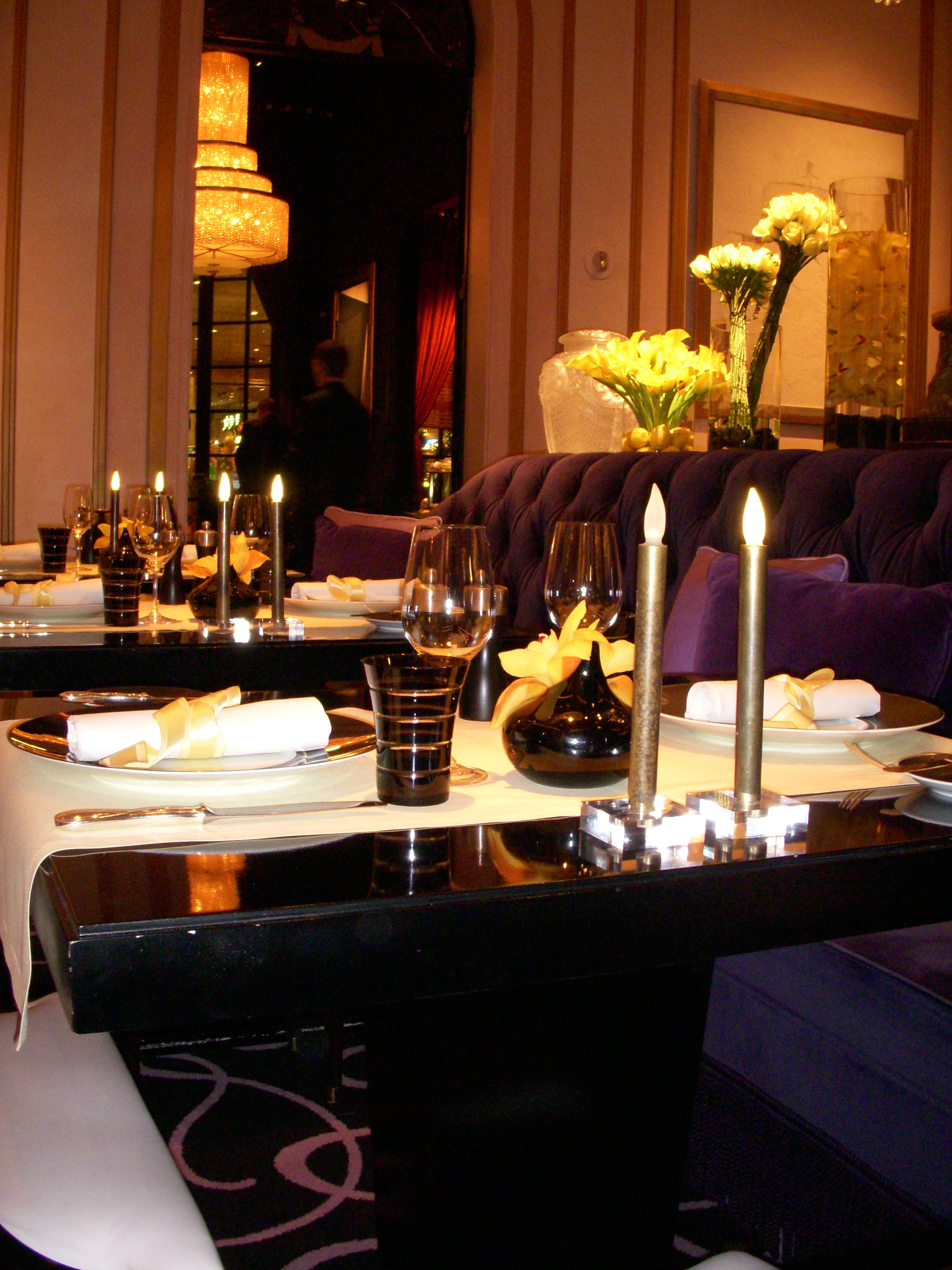 View from inside Joel Robuchon Restaurant, Las Vegas